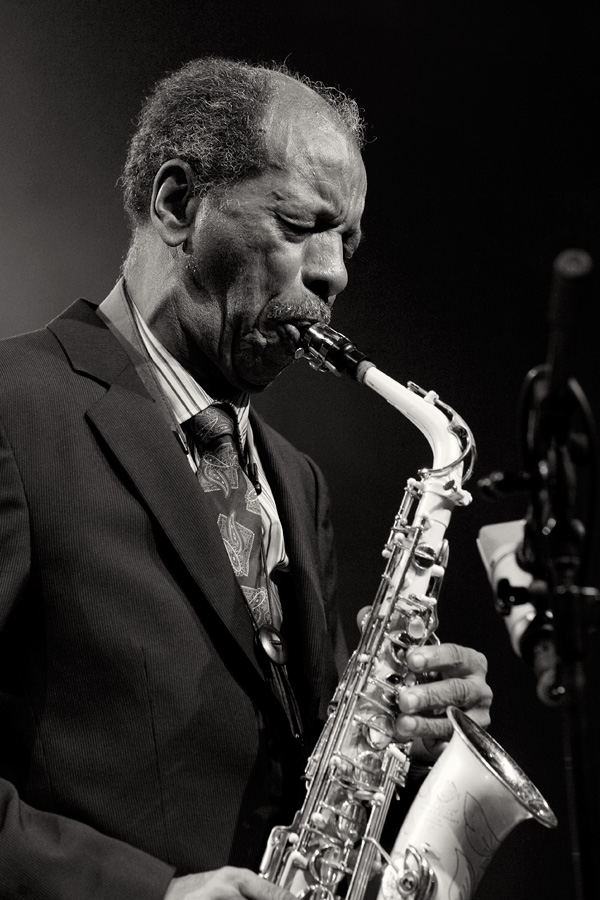 Ornette Coleman, Moers Festival 2011